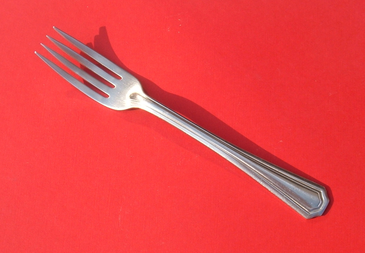 Table fork. One of a series of common objects I photographed in the summer of 2005 to illustrate Basic English picture wordlist. --agr 21:08, 3 August 2005 (UTC)